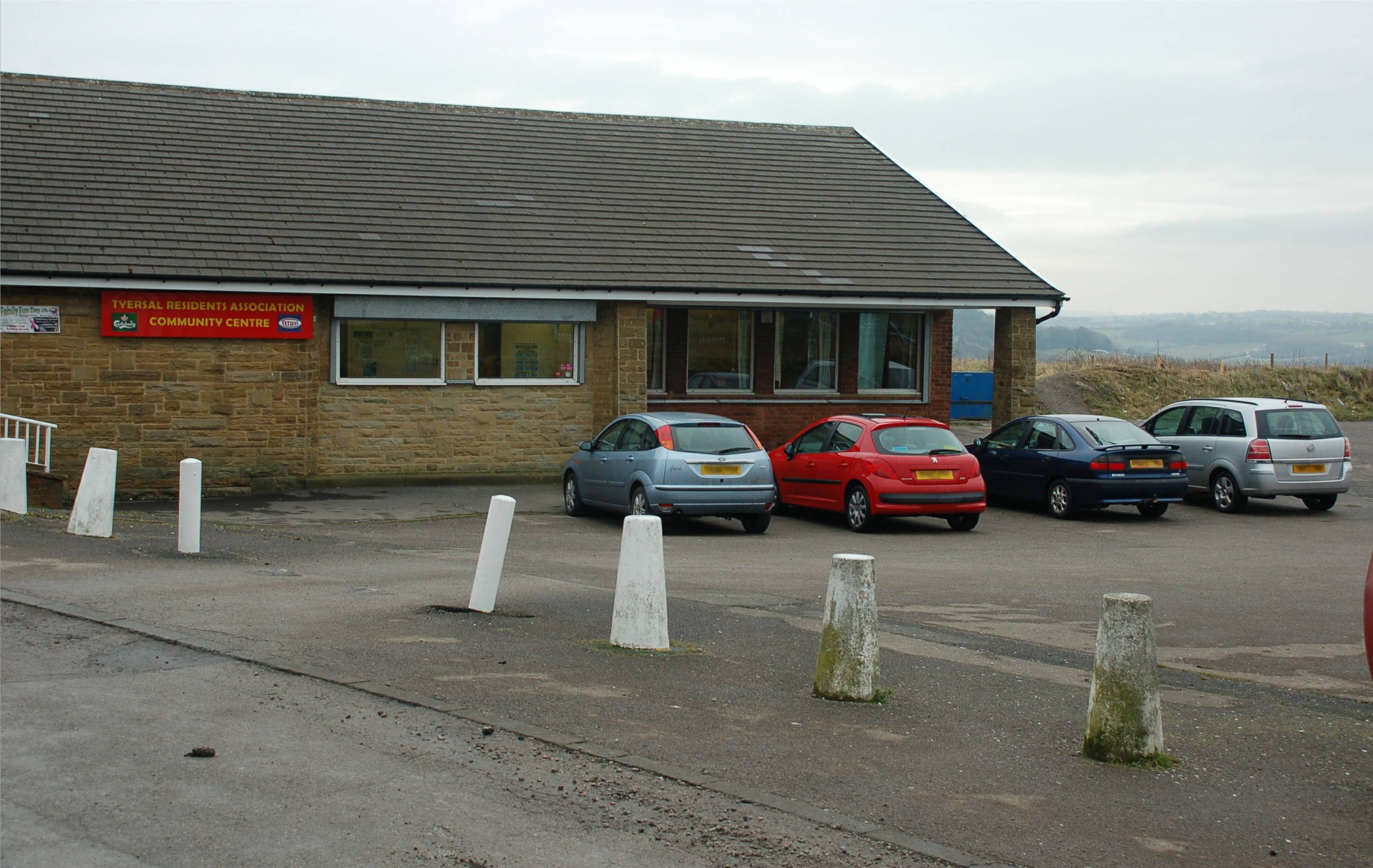 This photo is looking at Tyersal club from outside